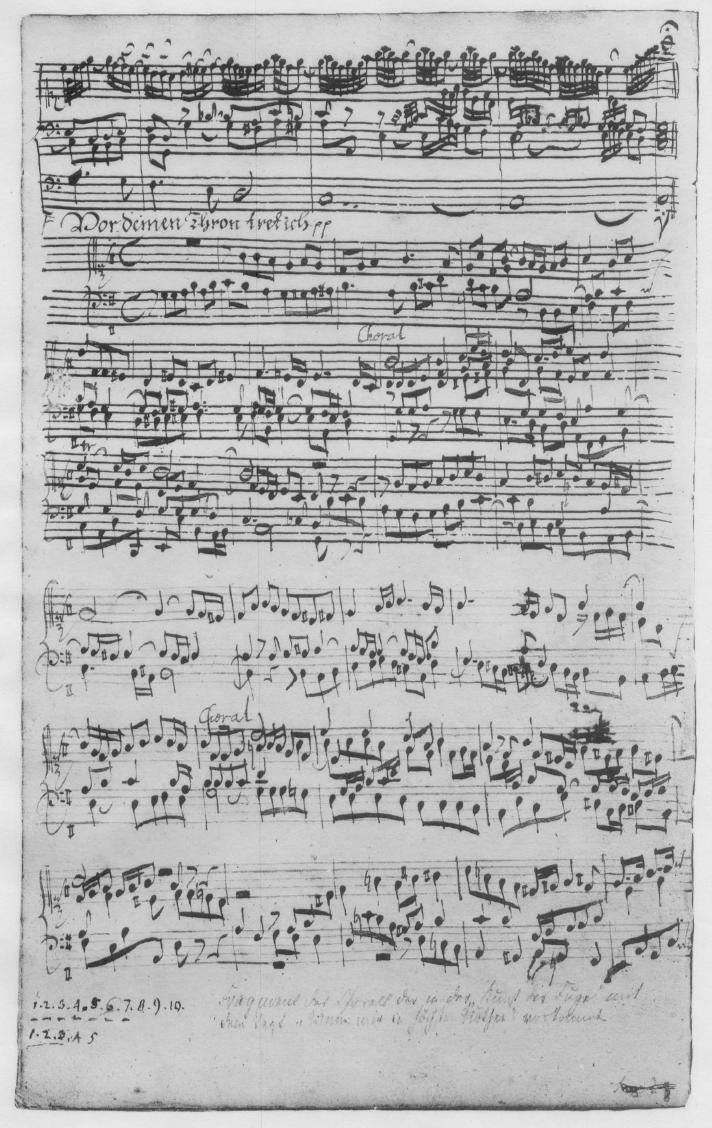 Fragment from the autograph manuscript of the organ Chorale Prelude BWV 668, Vor deine Thron tret' ich